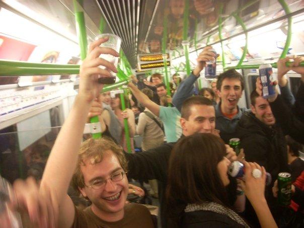 Revellers enjoying the last chance to drink alcohol on the London Underground.